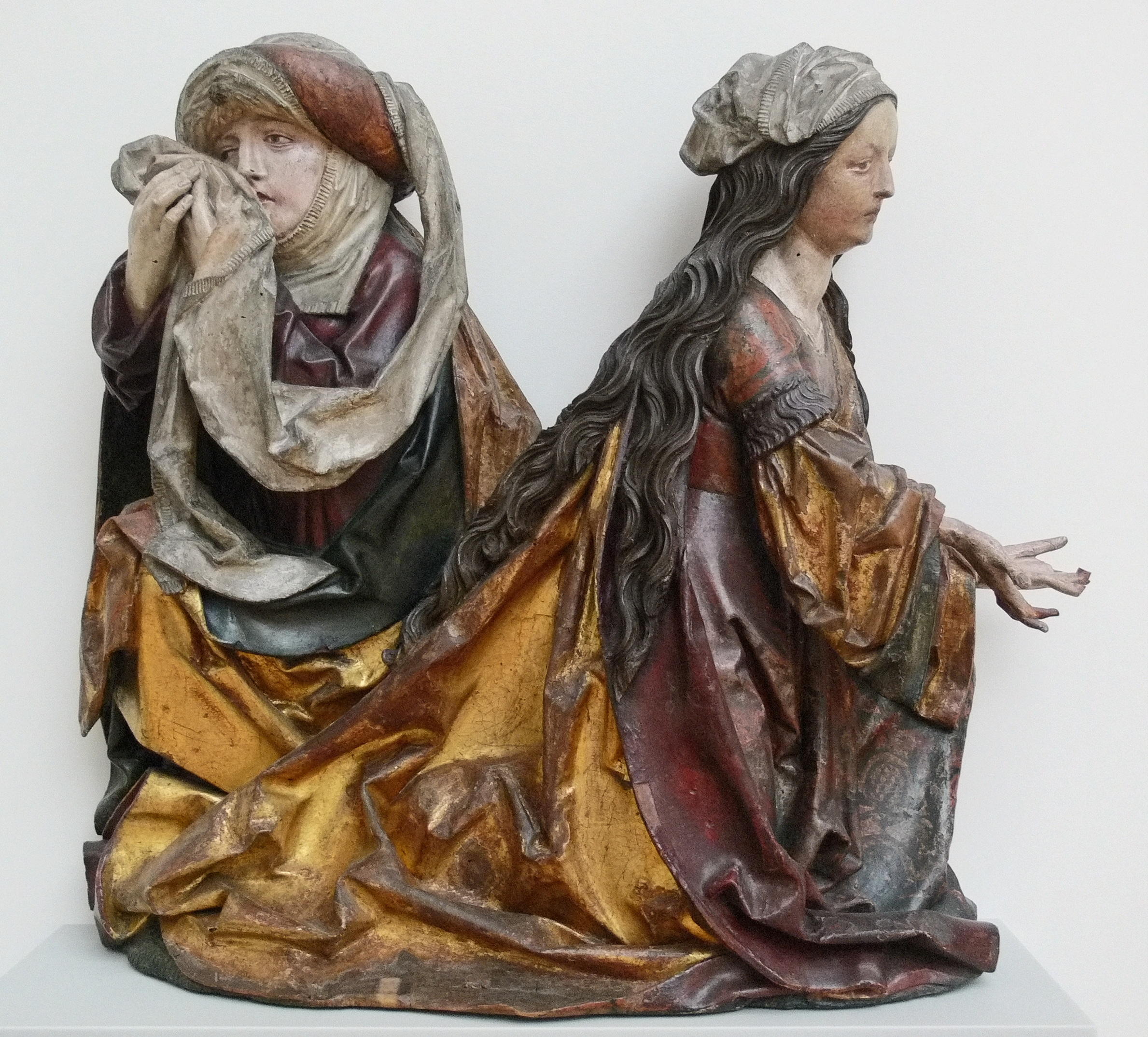 Tilman Riemenschneider: Mourning Women from a Lamentation of Christ, c. 1485/1490, limewood, original colour; from the pedestal of the high altar altarpiece of the Franciscan Church in Rothenburg ob der Tauber. Skulpturensammlung (inv. no. 409, acquired in 1883), Bode-Museum Berlin.